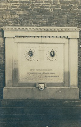 Paskal Paskalev and Ivan Gladnev, Gabrovo clocktower